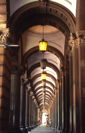 General Post Office (GPO), Sydney, photo by Sardaka 10:07, 9 August 2007 (UTC)